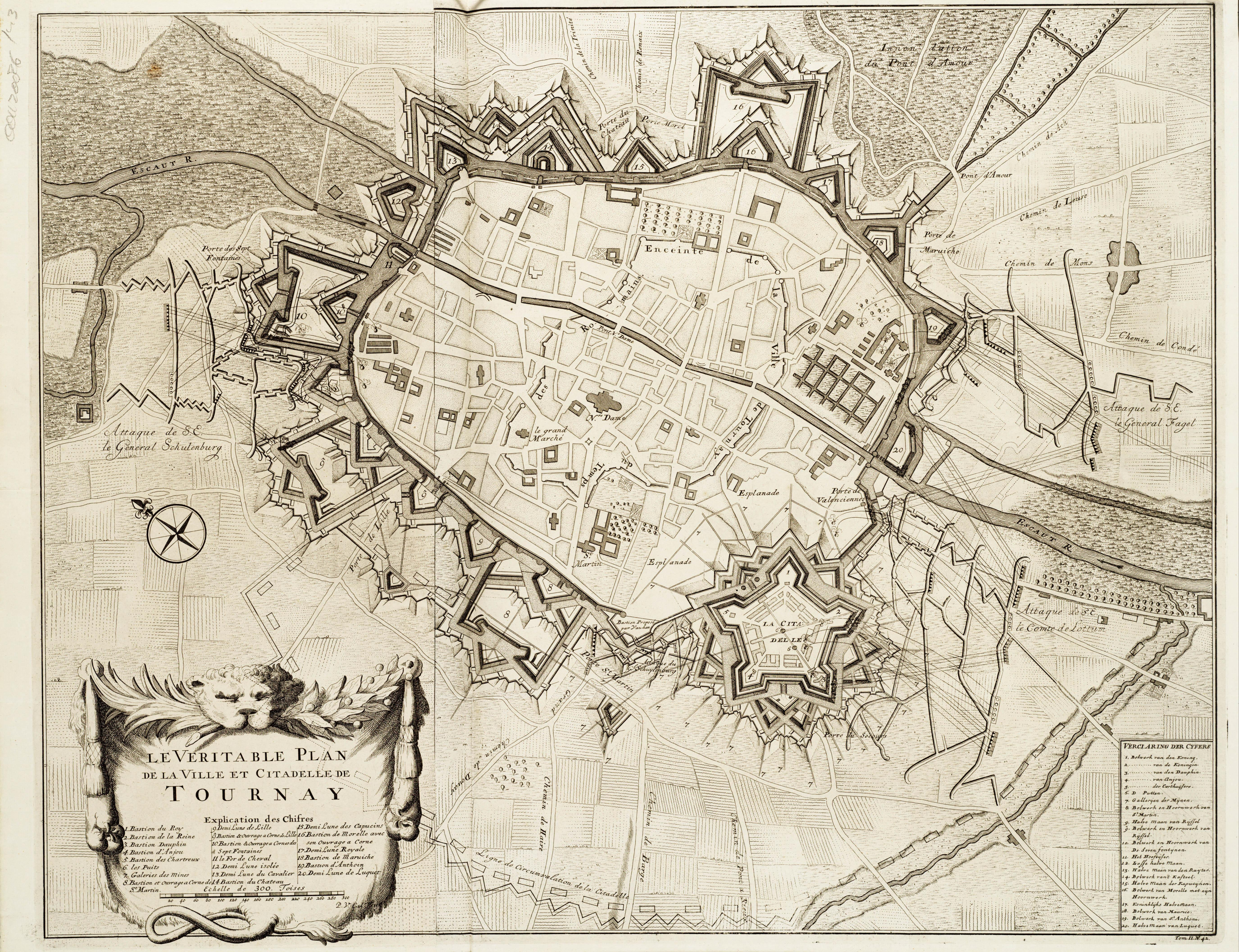 Depiction of the siege of Tournai (Doornik) in 1709.